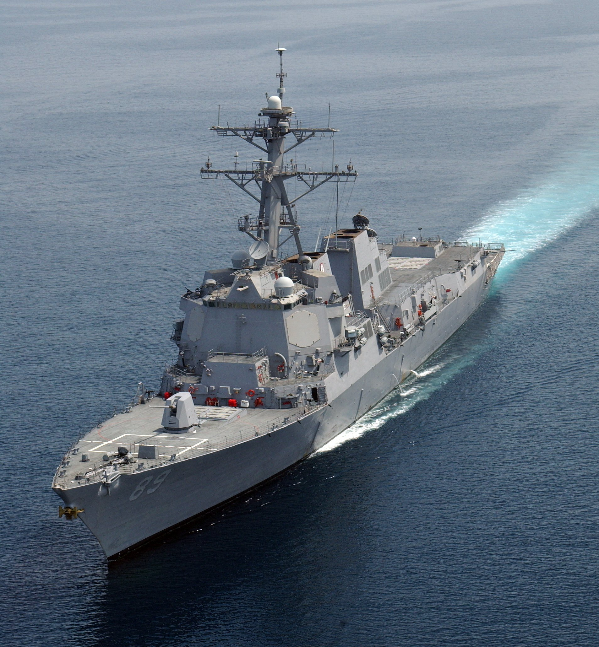 050413-N-5526M-018 Persian Gulf - The Arleigh Burke-class guided missile destroyer USS Mustin (DDG 89) underway in the Northern Persian Gulf while conducting Maritime Security Operations. U.S. and Coalition forces plan and execute maritime security operations (MSO) to deny terrorists use of the maritime environment in the Northern Persian Gulf. MSO's have a multi-layered security posture utilizing a variety of assets to detect, disrupt and destroy terrorist attempts to harm the infrastructure of Iraq. This includes the security and normalization of commercial shipping into and out of Iraq and the Khor Al Amaya and Al Basrah Oil Terminals. Mustin is currently deployed with the USS Carl Vinson (CVN 70) Carrier Strike Group, currently on a scheduled deployment in support of Operation Iraqi Freedom (OIF).